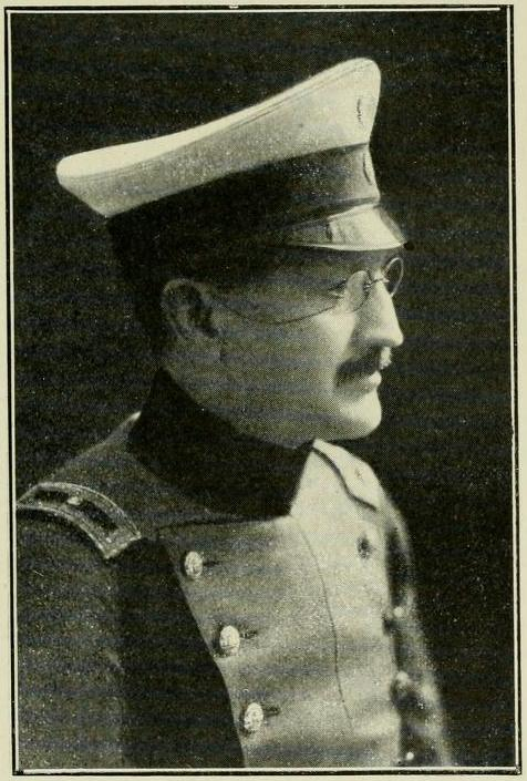 Ricardo Solá (1868 - 1951), an Argentine army officer, governor of Salta.